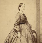 Sophia Taylor, second wife of Allan Kerr Taylor. They owned Alberton in Auckland.